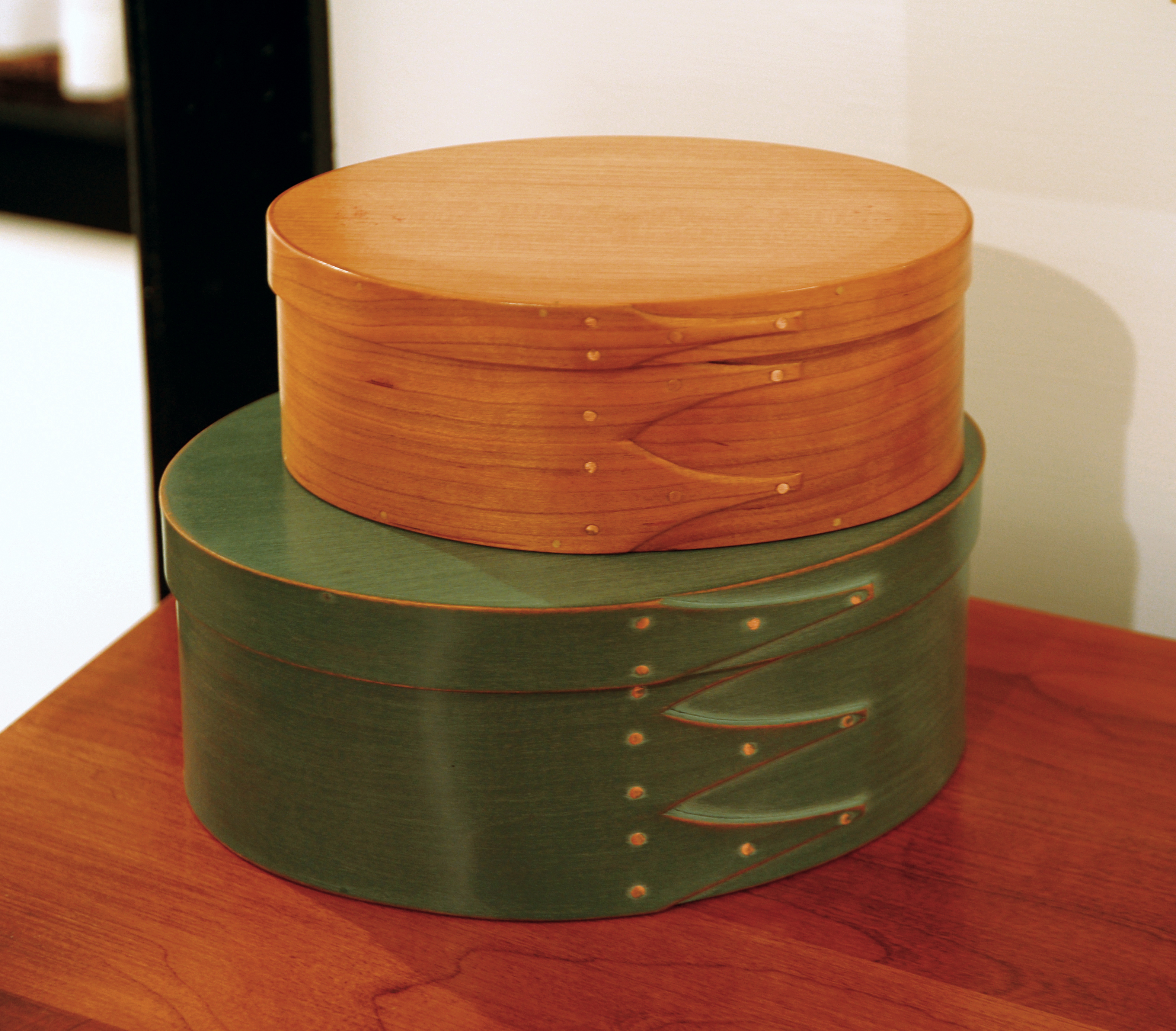 Images of items found at the Shaker Village at Pleasant Hill